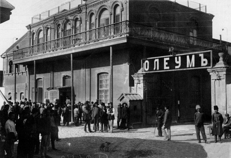 Workers near the office of the oil company "Oleum"